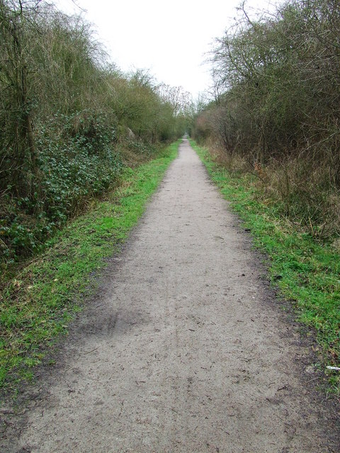 Flitch Way at Takeley On the trackbed of the now closed Bishops Stortford, Dunmow & Braintree railway.